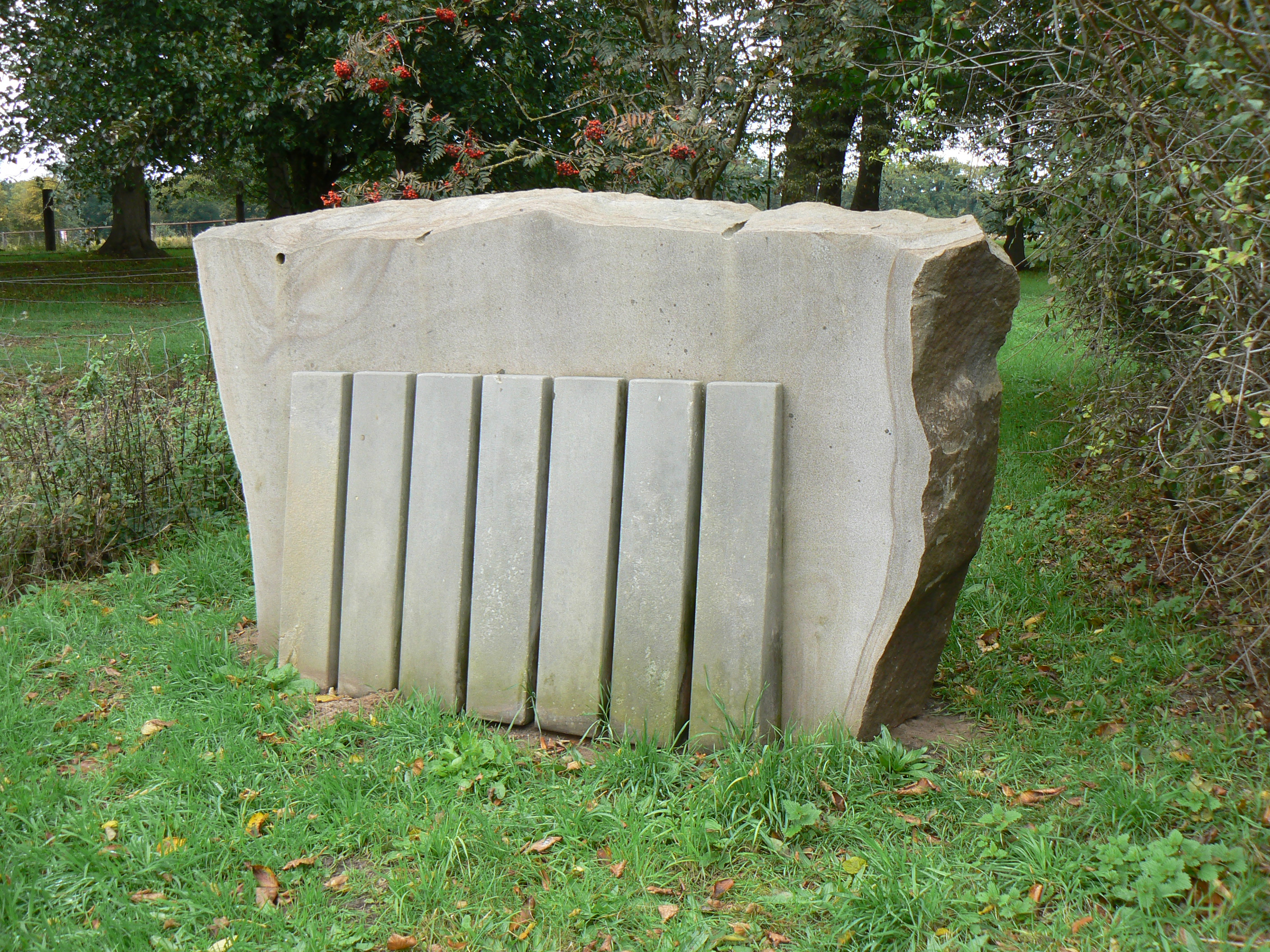 sculpture Untitled (1979) by C.P. Damsté in Frenswegen/Germany